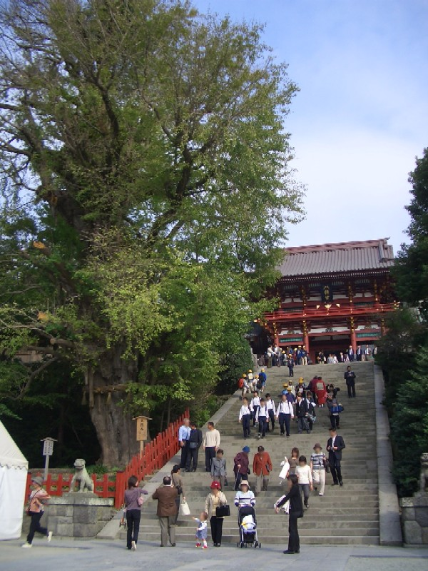 Large ginkgo tree in Tsurugaoka-hachimangu shrine.